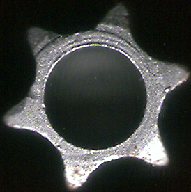 Close-up of secure Torx driver